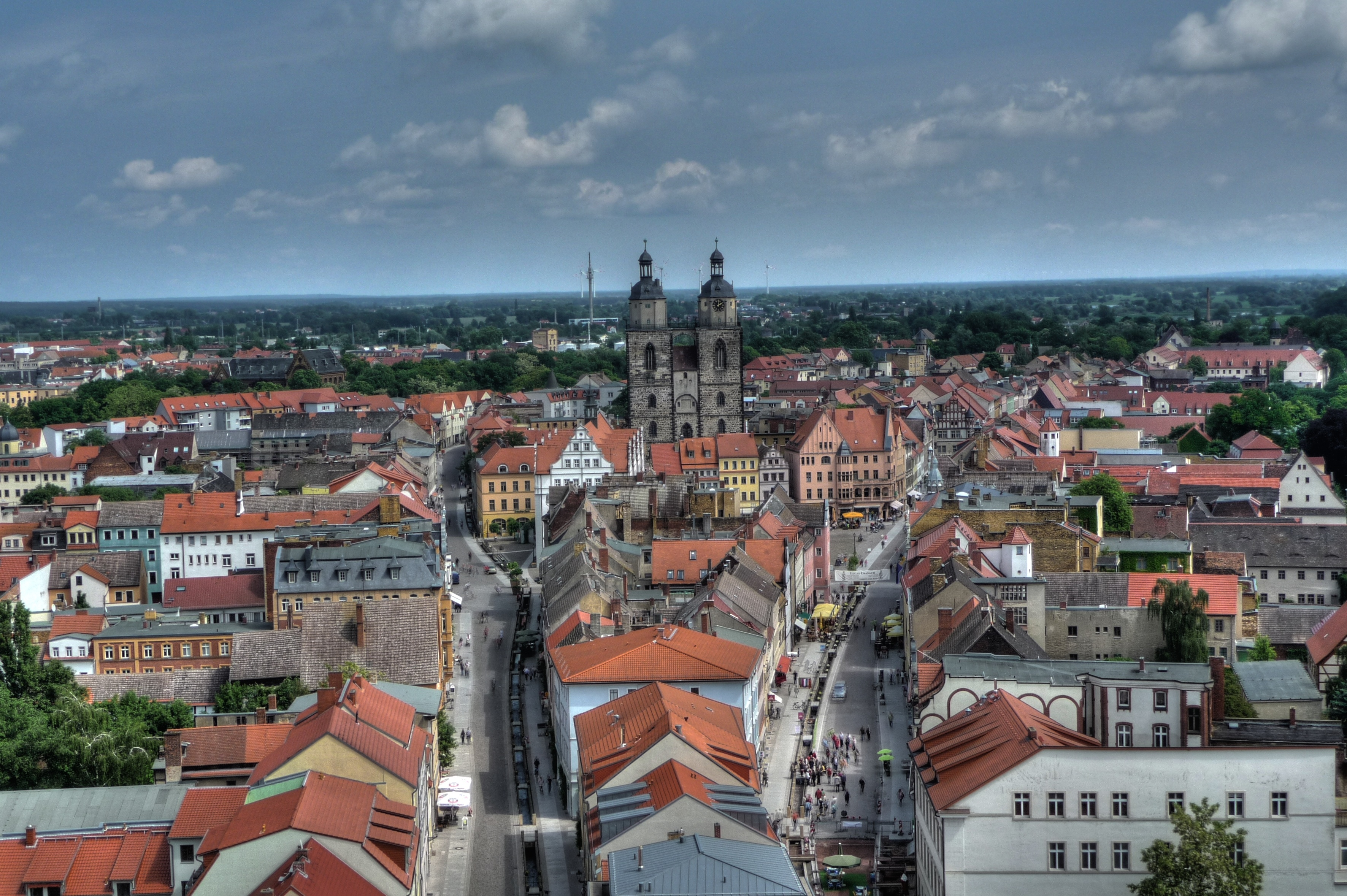 The old town of Wittenberg seen from the tower of All Saint's Church